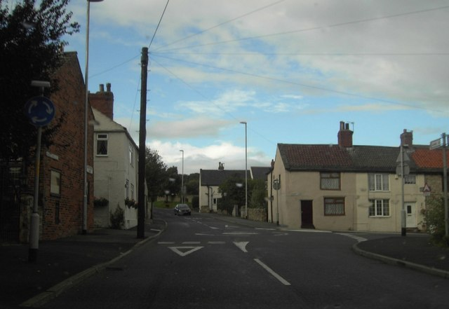 Preston Road Mini Roundabout Junction of Berry Lane, Preston Road and Whitehouse Lane.